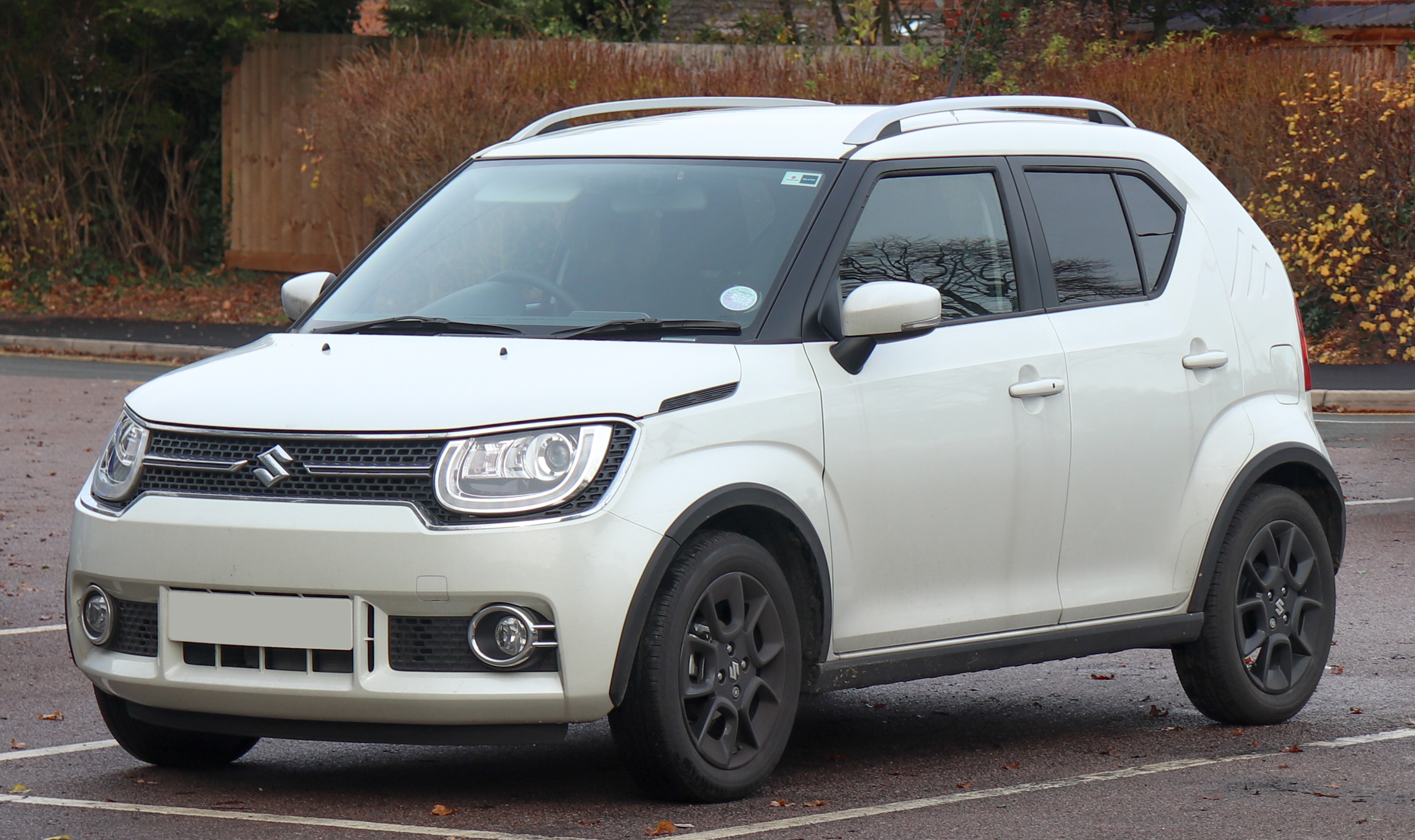 2018 Suzuki Ignis SZ5 SHVS Allgrip 1.2 Front